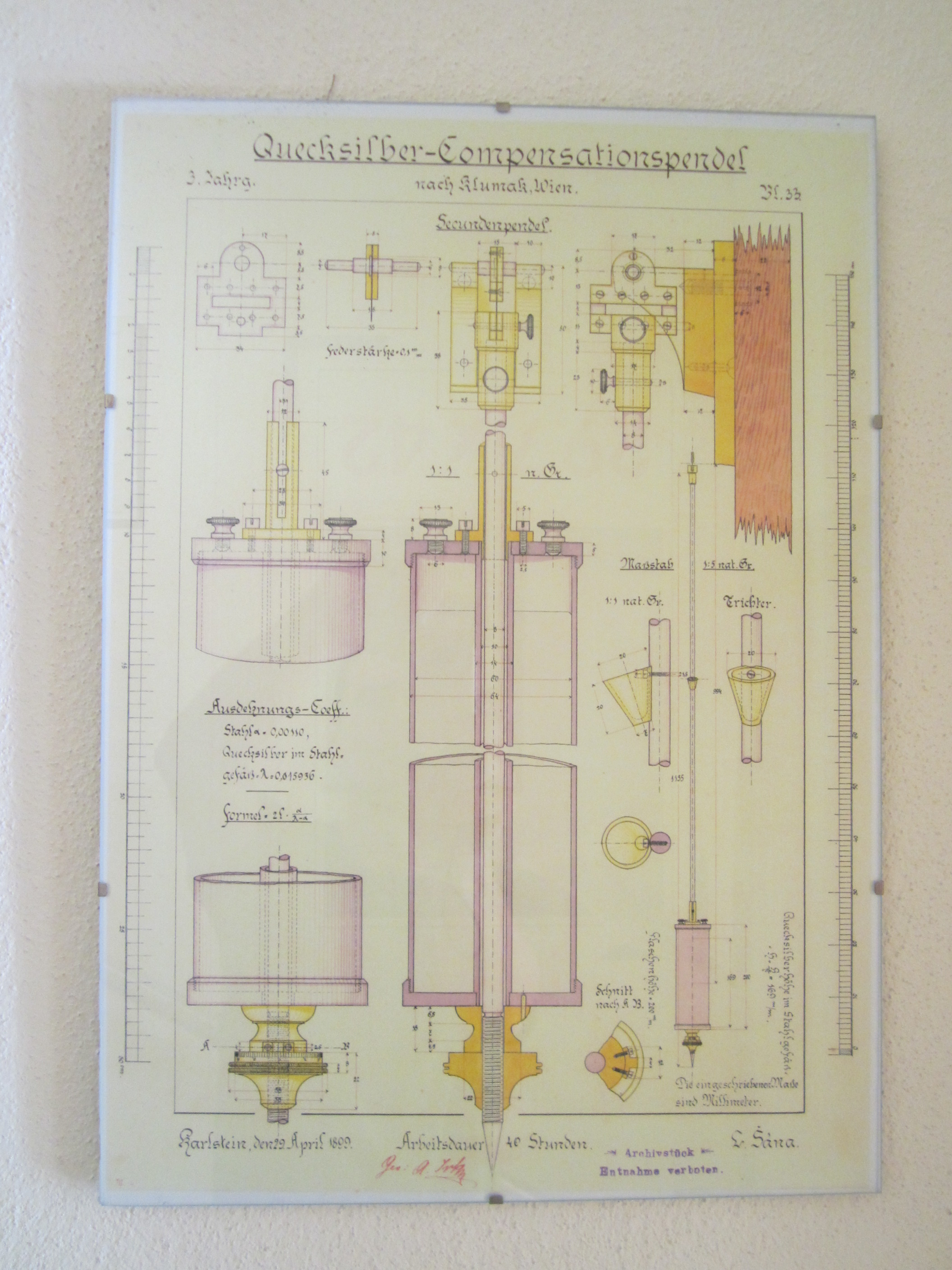 Engineering drawing of a mercury pendulum in the museum of clocks in Karlstein an der Thaya (Austria)